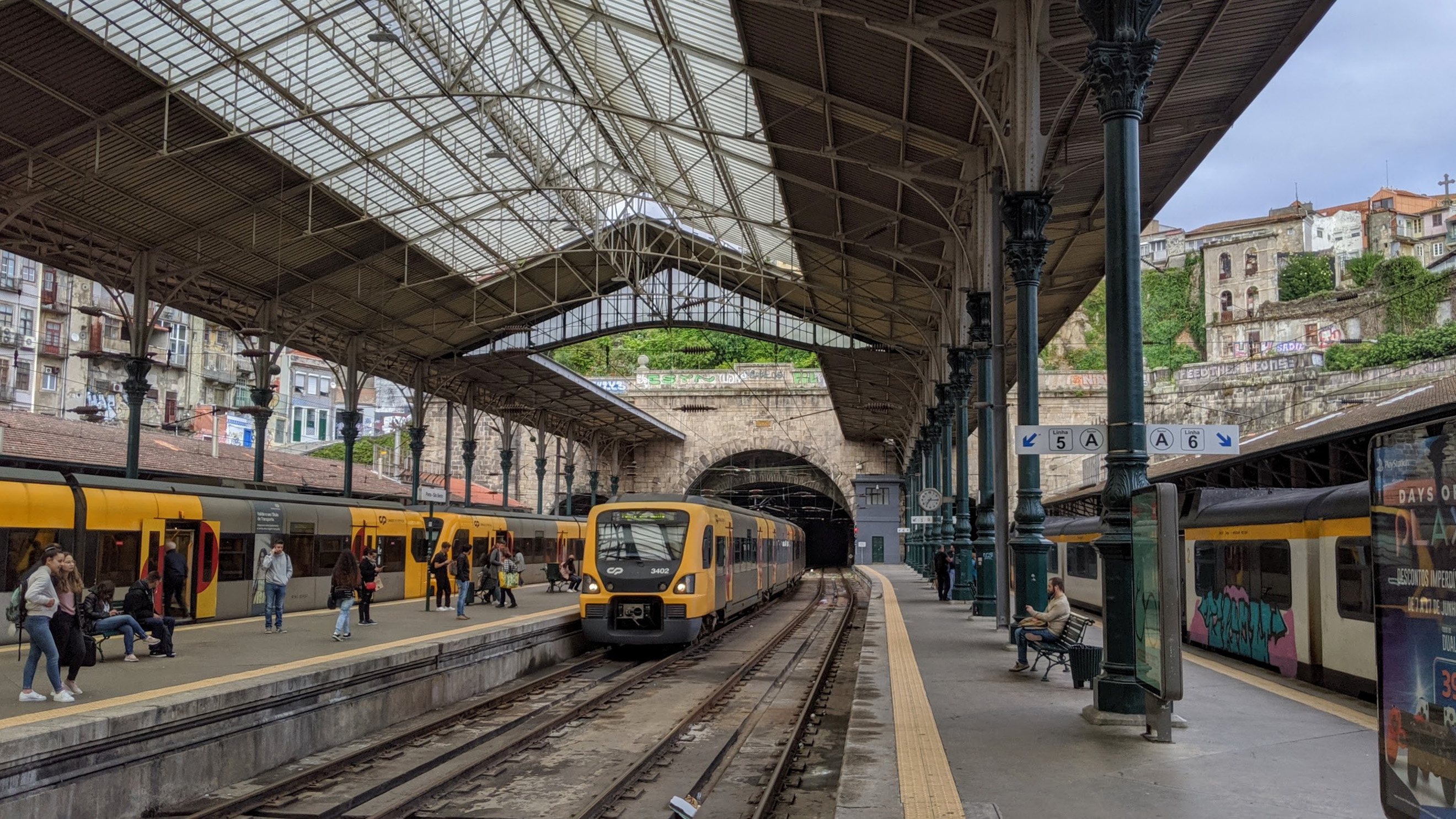 Inside Porto's São Bento station, looking east toward the tunnel